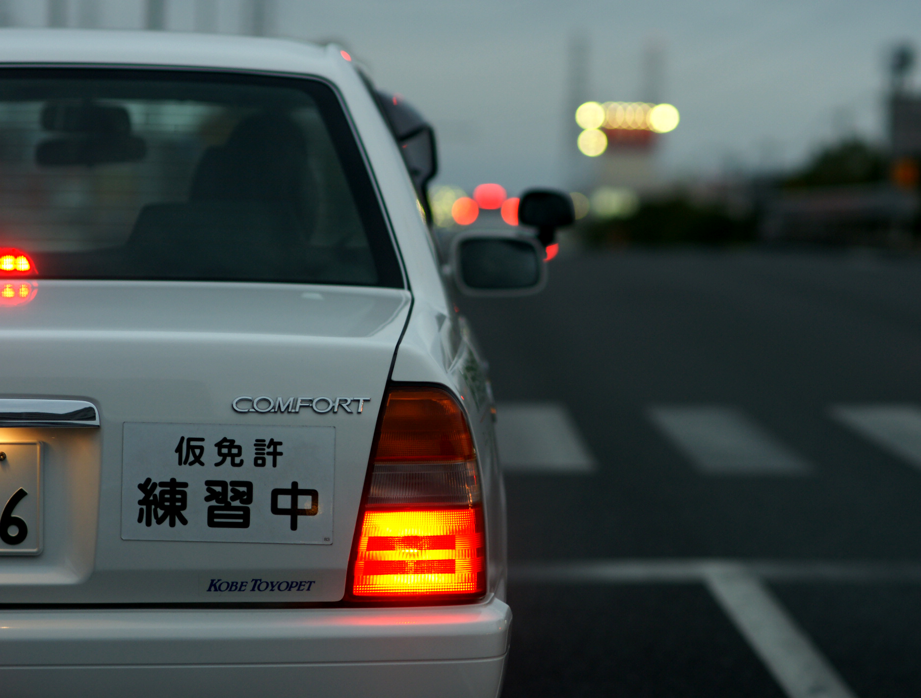 A provisionally licensed vehicle.